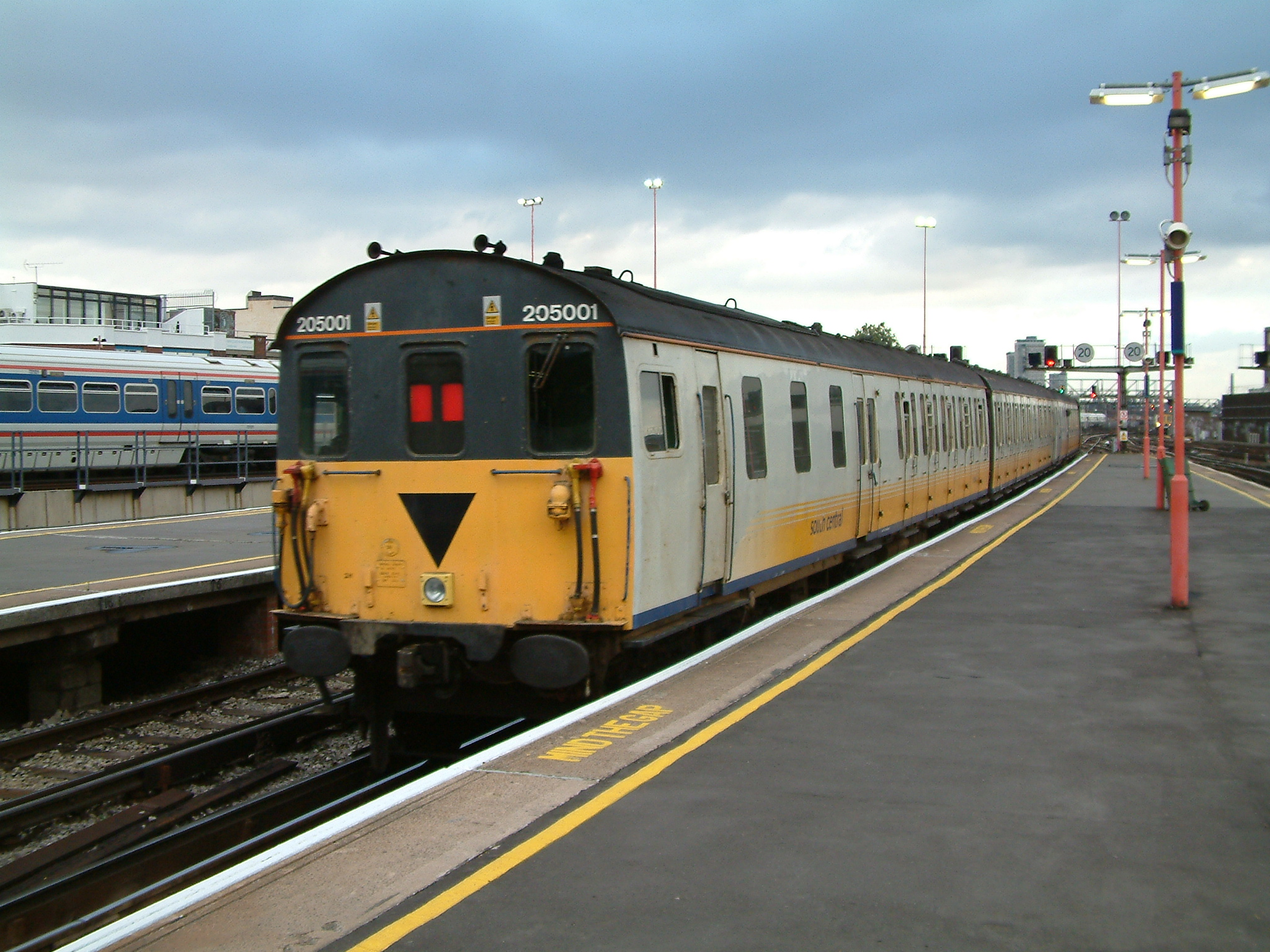 Thumper 205001 on a Southern service arrives at London Bridge during the evening rush hour. Now, this unit is in preservation on the East Kent Railway.